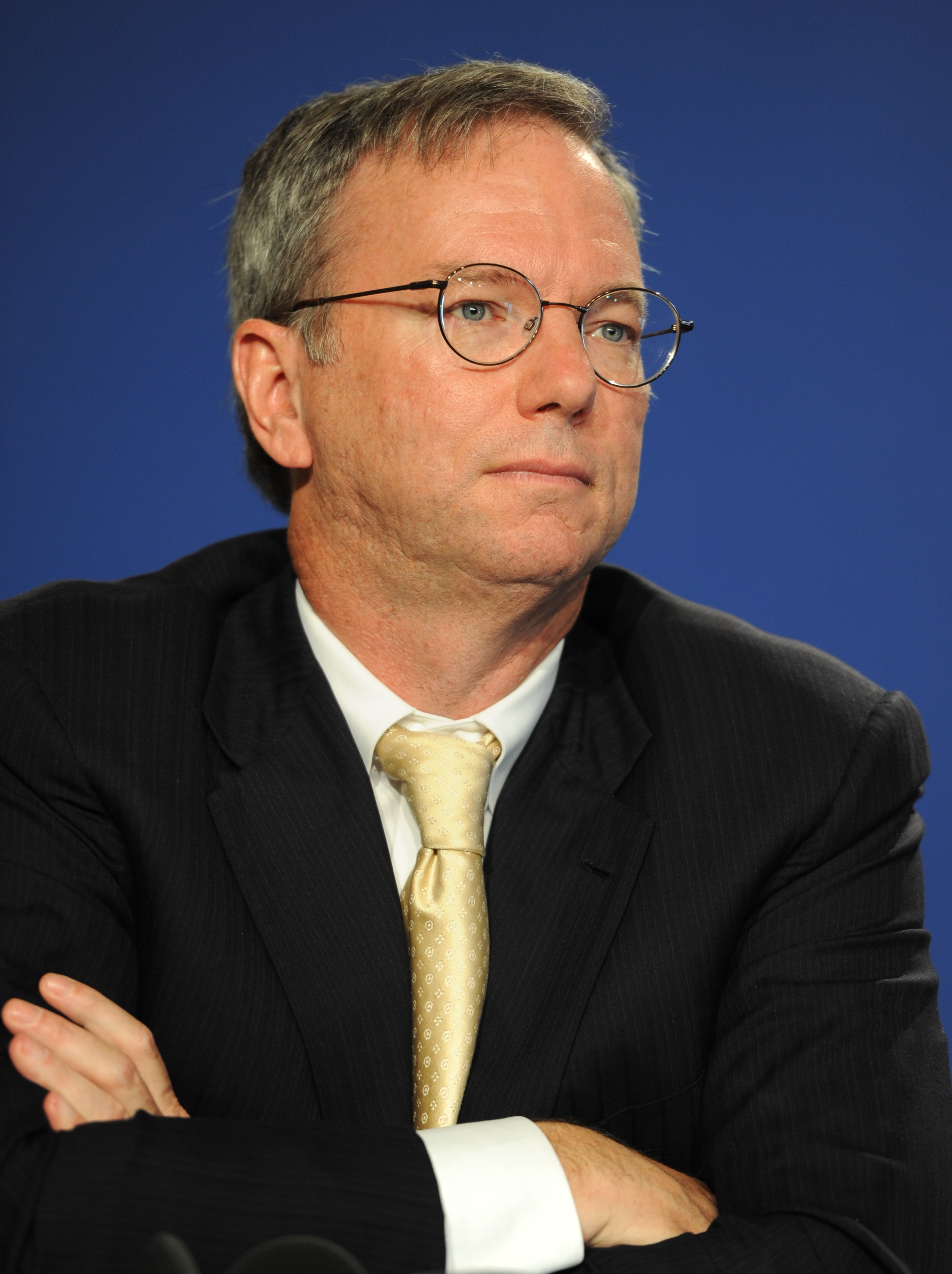 Eric Schmidt, Executive Chairman of Google Inc., at the press conference about the e-G8 forum during the 37th G8 summit in Deauville, France.